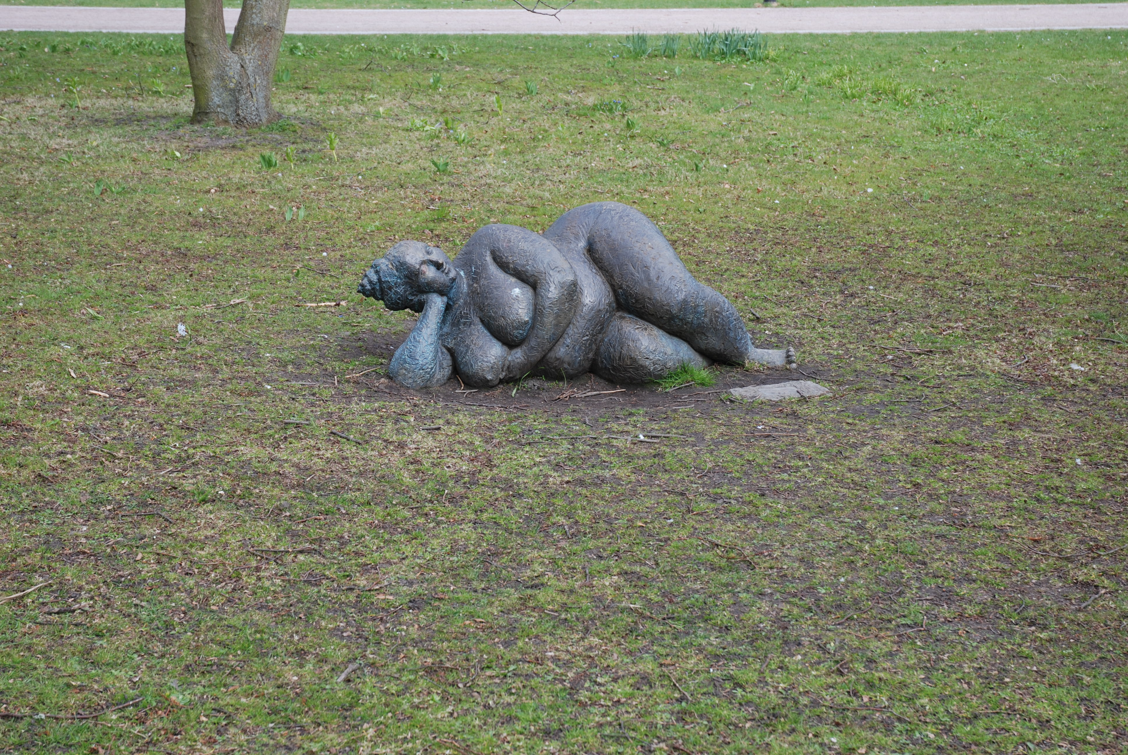 Lena Lervik´s Venus, bronze, Landskrona, Sweden